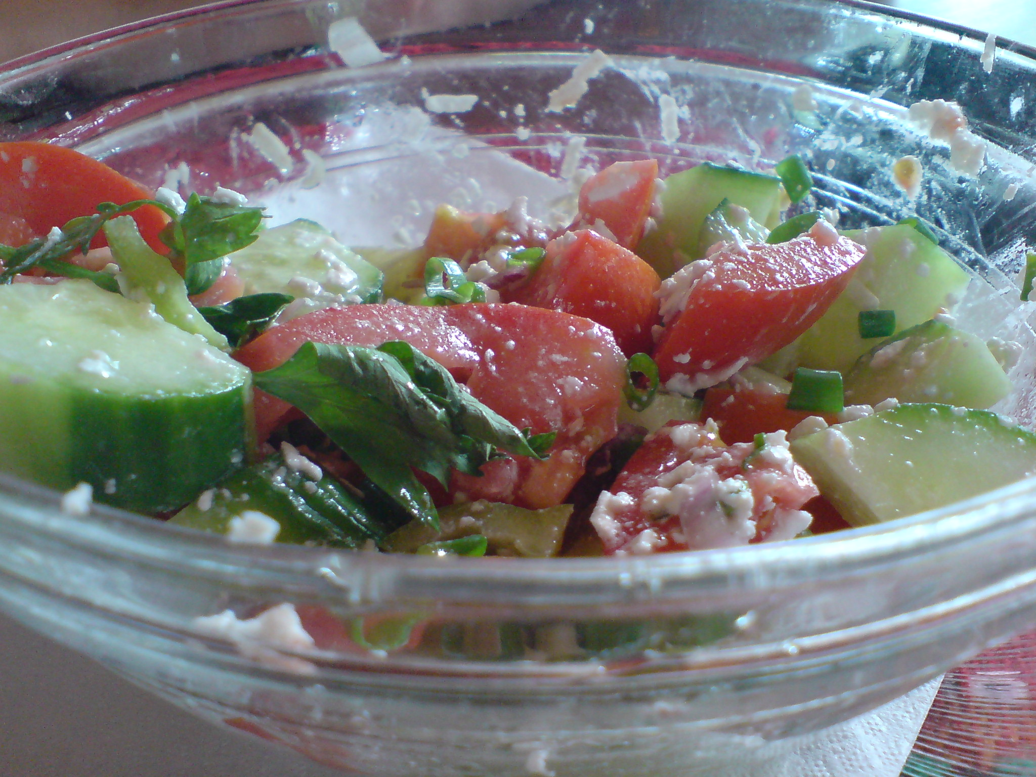 Traditional bulgarian salad - Shopska salata